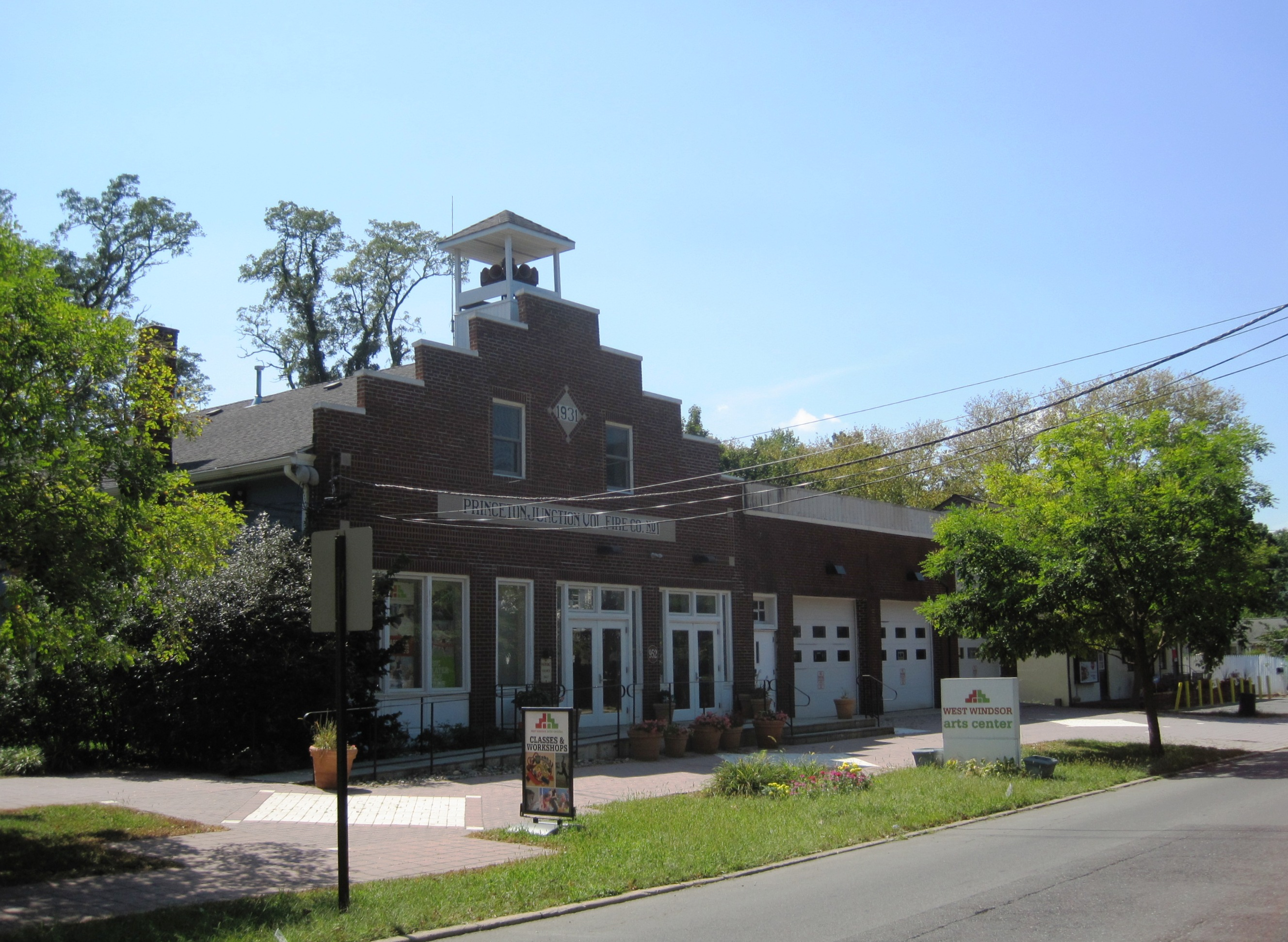 Photo of the Princeton Junction Fire Company #1 building, now housing the West Windsor Arts Center, in the Berrien City section of West Windsor Township, New Jersey. Location is on Alexander Road west of Scott Avenue.